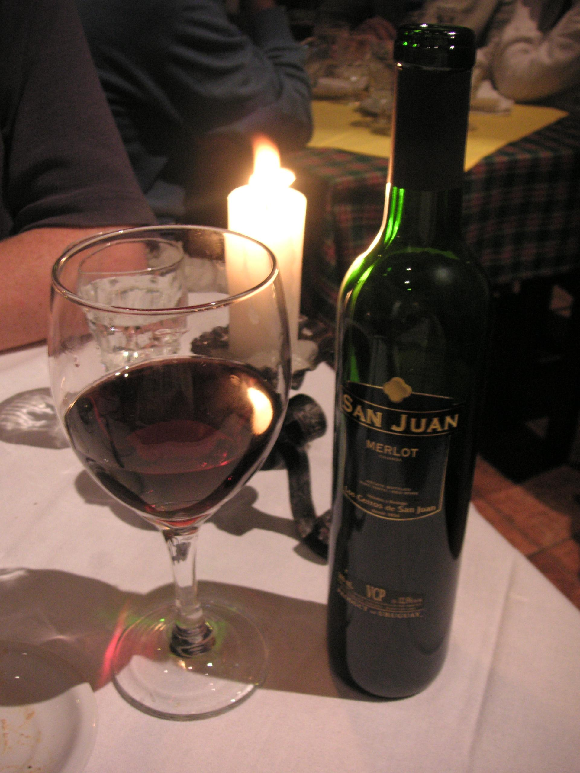 Merlot from Uruguay